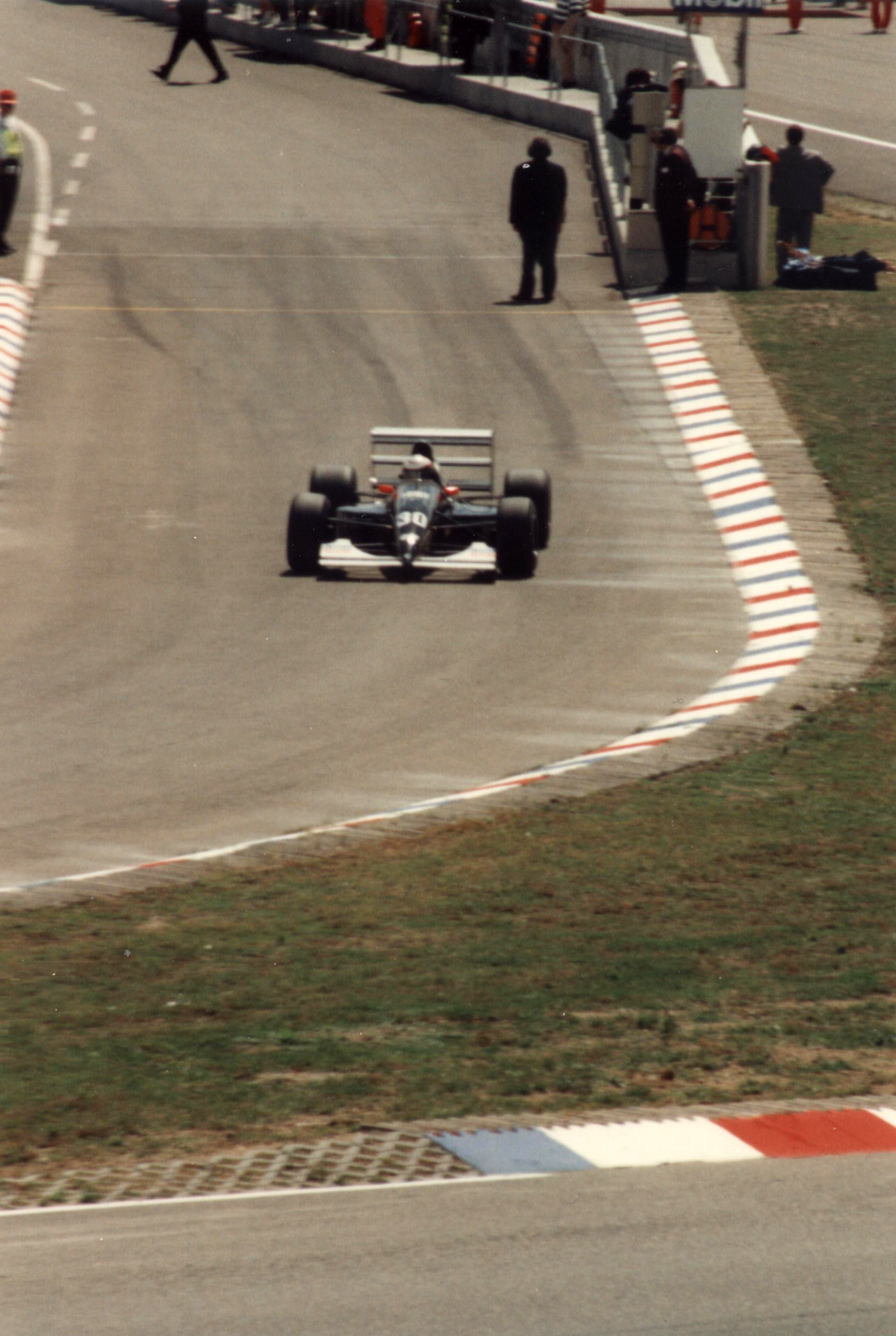 1993 German F1 GP